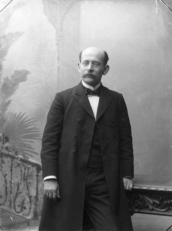 Kristian Birkeland, 1902.